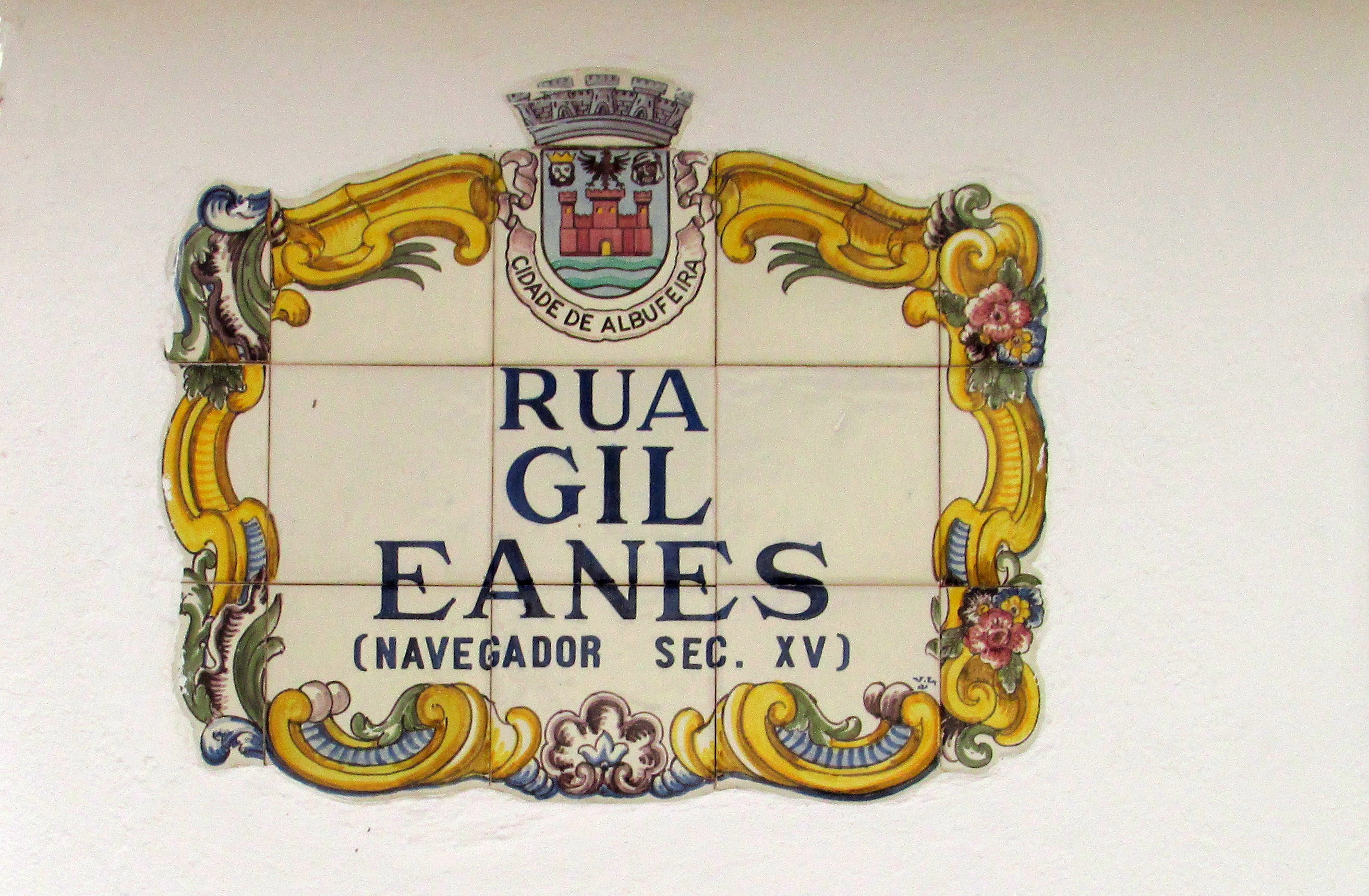 A decretive tile street sign which designates the Rua Gil Eanes within the city of Albufeira, Algarve, Portugal.